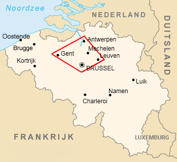 The red area indicates the Flemish Diamond, an metropolitan region.